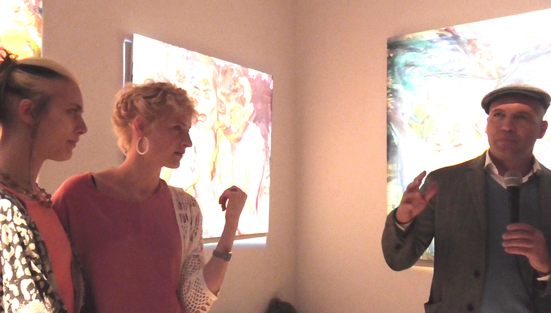 Zsófia Vári painter, Nóra Bartóki-Gönczy photographer & Billy Zane actor in Budapest, 2016-05-19